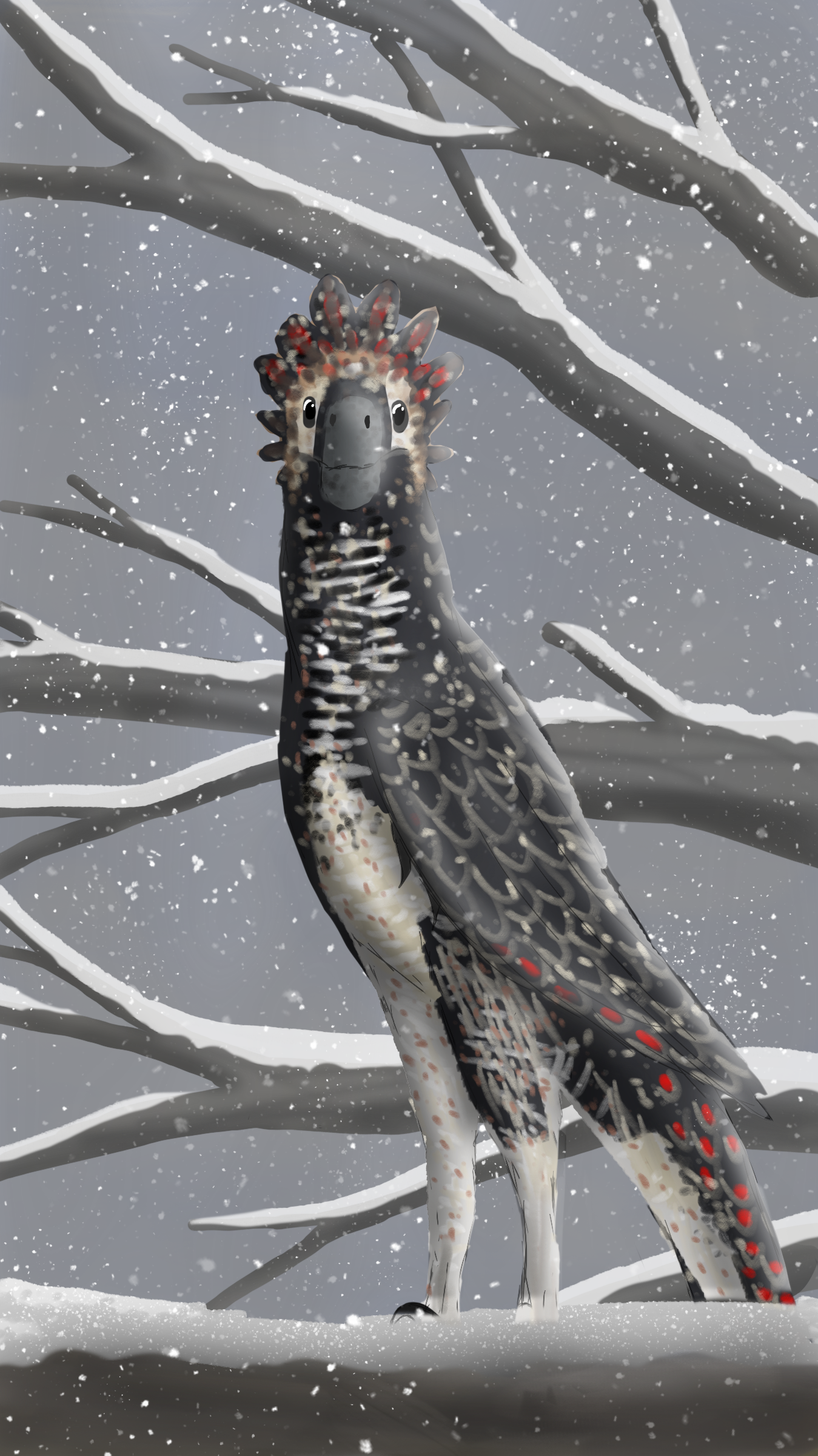 A reconstruction of Tianyuraptor ostromi, perched on a branch.